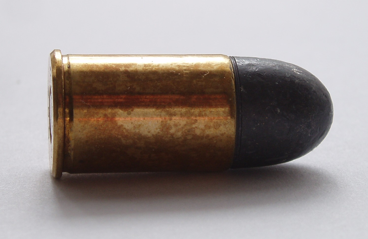 .450 Corto revolver cartrdige. Lead round bullet. Manufacturer: Fiocchi.